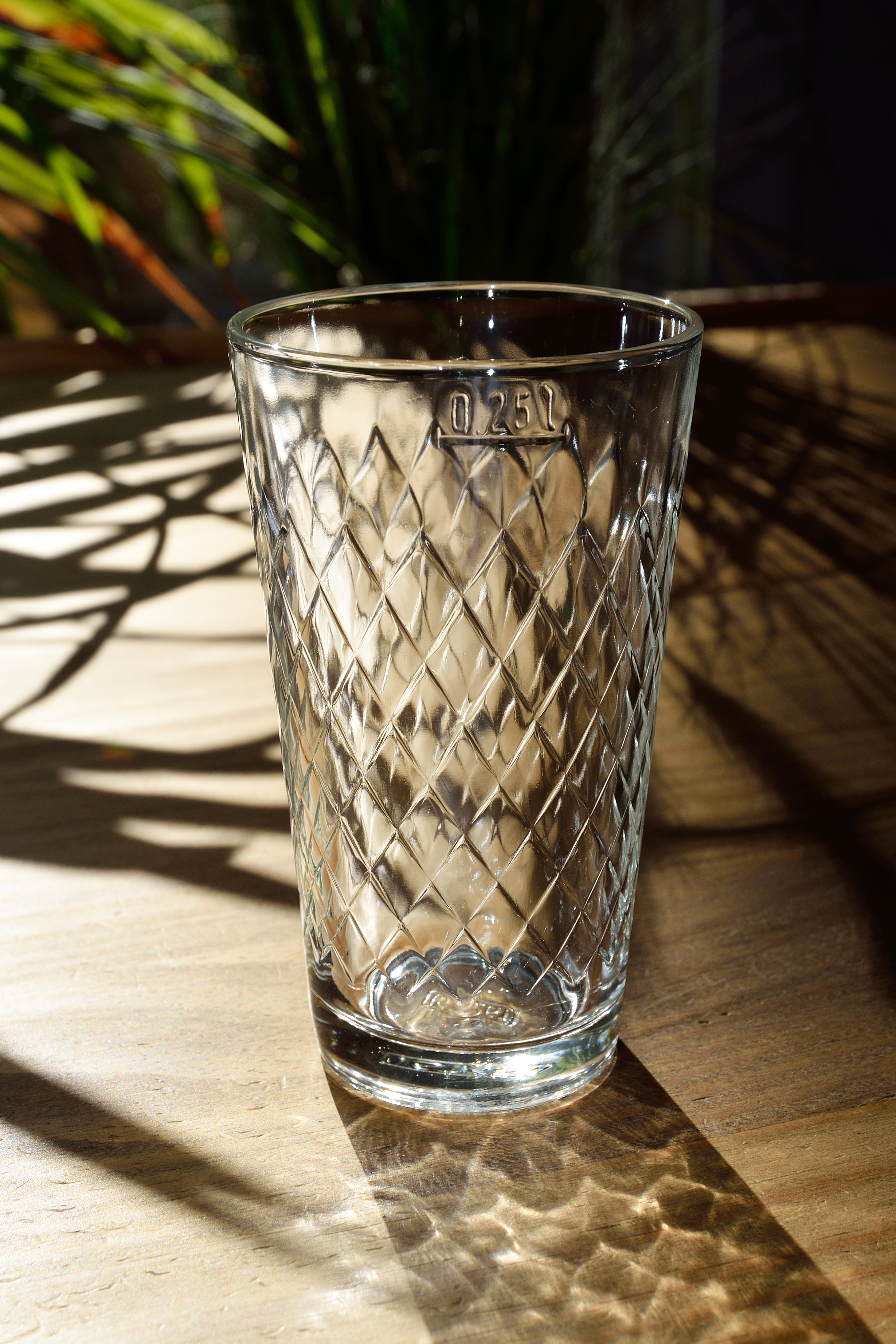 Apple wine glass ("Geripptes") 250 ml